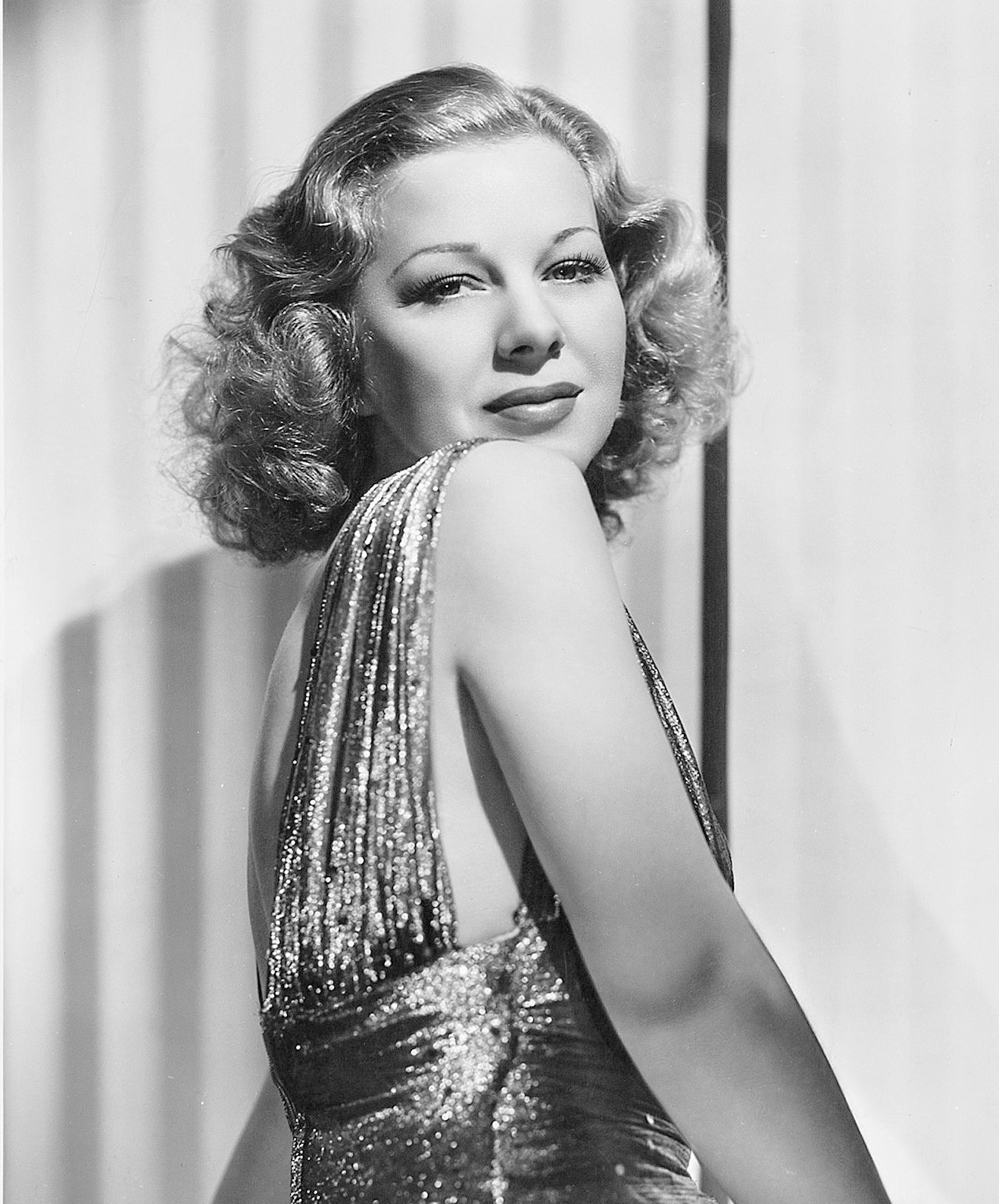 Paramount photo of Glenda Farrell in the film Stolen Heaven by William Walling.